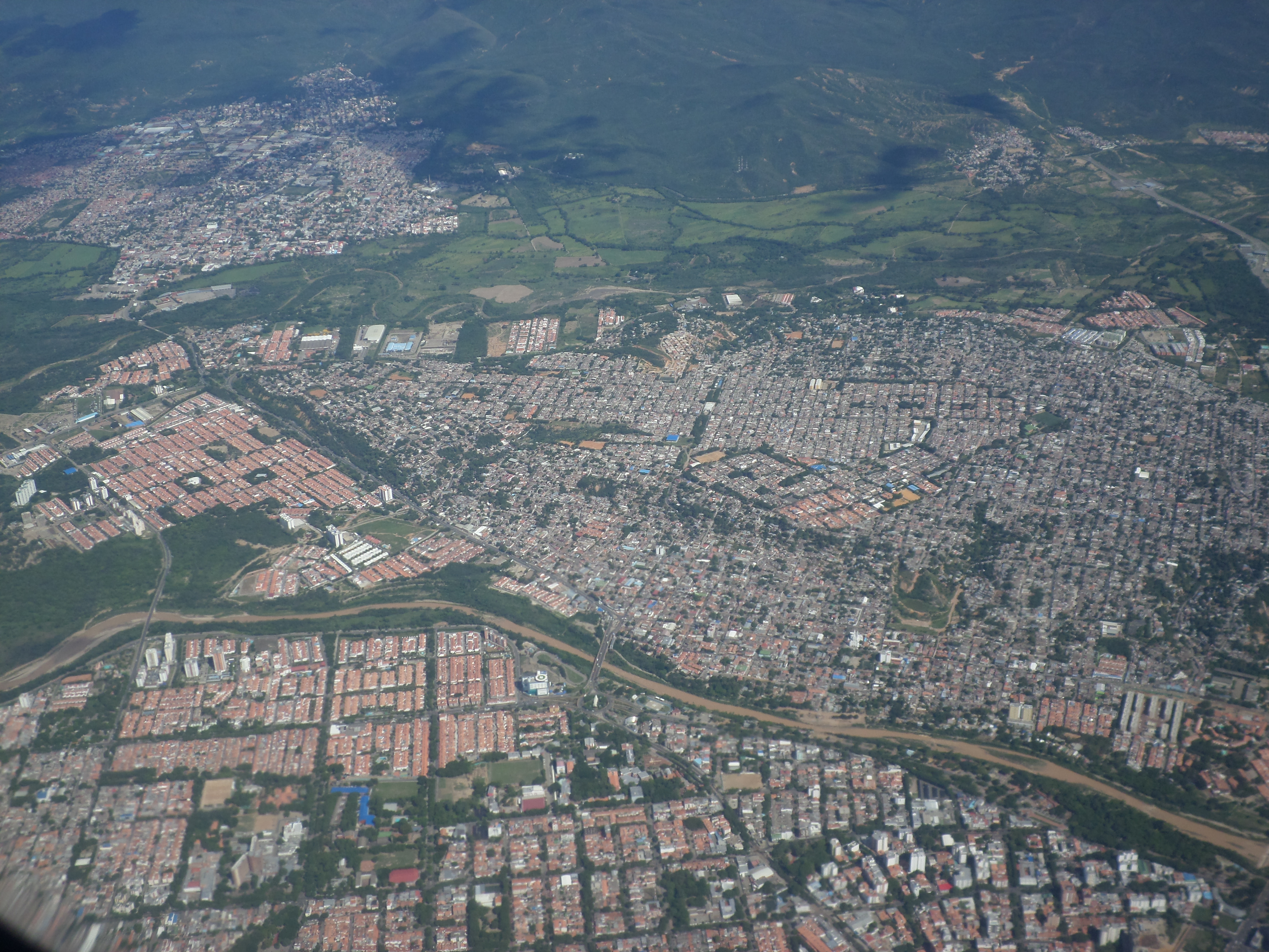 Aerial photographs of Cúcuta